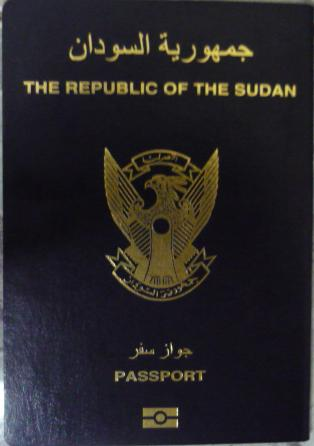 sudan biometric passport